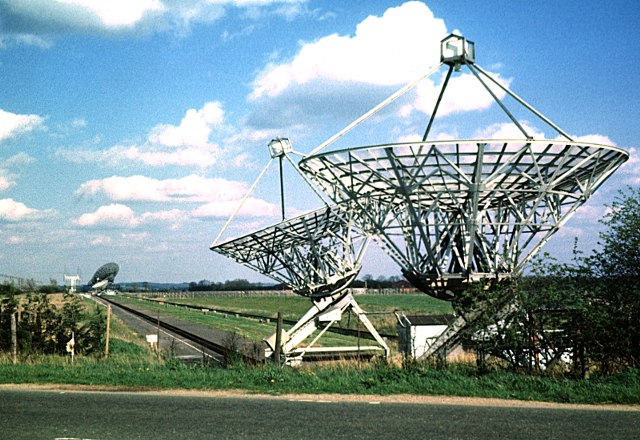 Radio Interferometer: These two dishes were part of the Half-Mile Telescope, a radio interferometer utilising the line of an old railway SW of Barton on the Mullard Radio Observatory site of the Cambridge Cavendish Laboratory. In the distance are two more identical dishes, and two large dishes that are part of the One-Mile Telescope. Also visible on the right is the line of elements comprising the 4C Array.